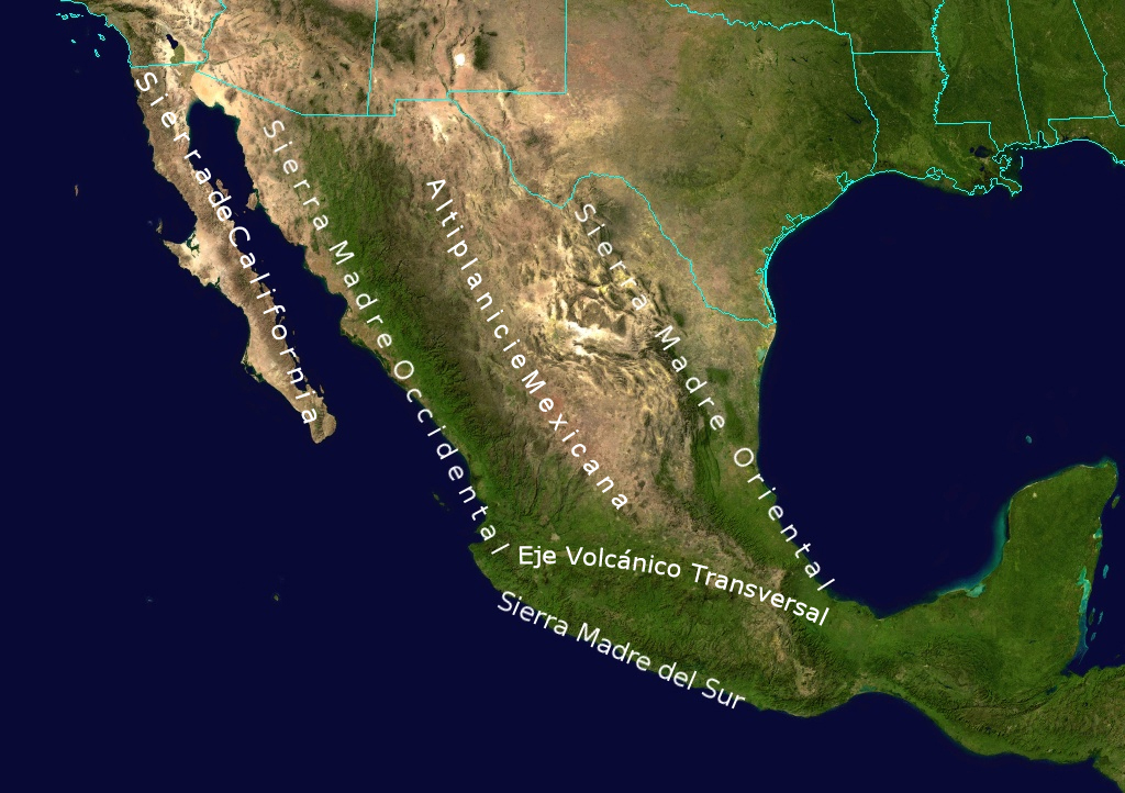 Topological Map labeling the most important elevations of the country